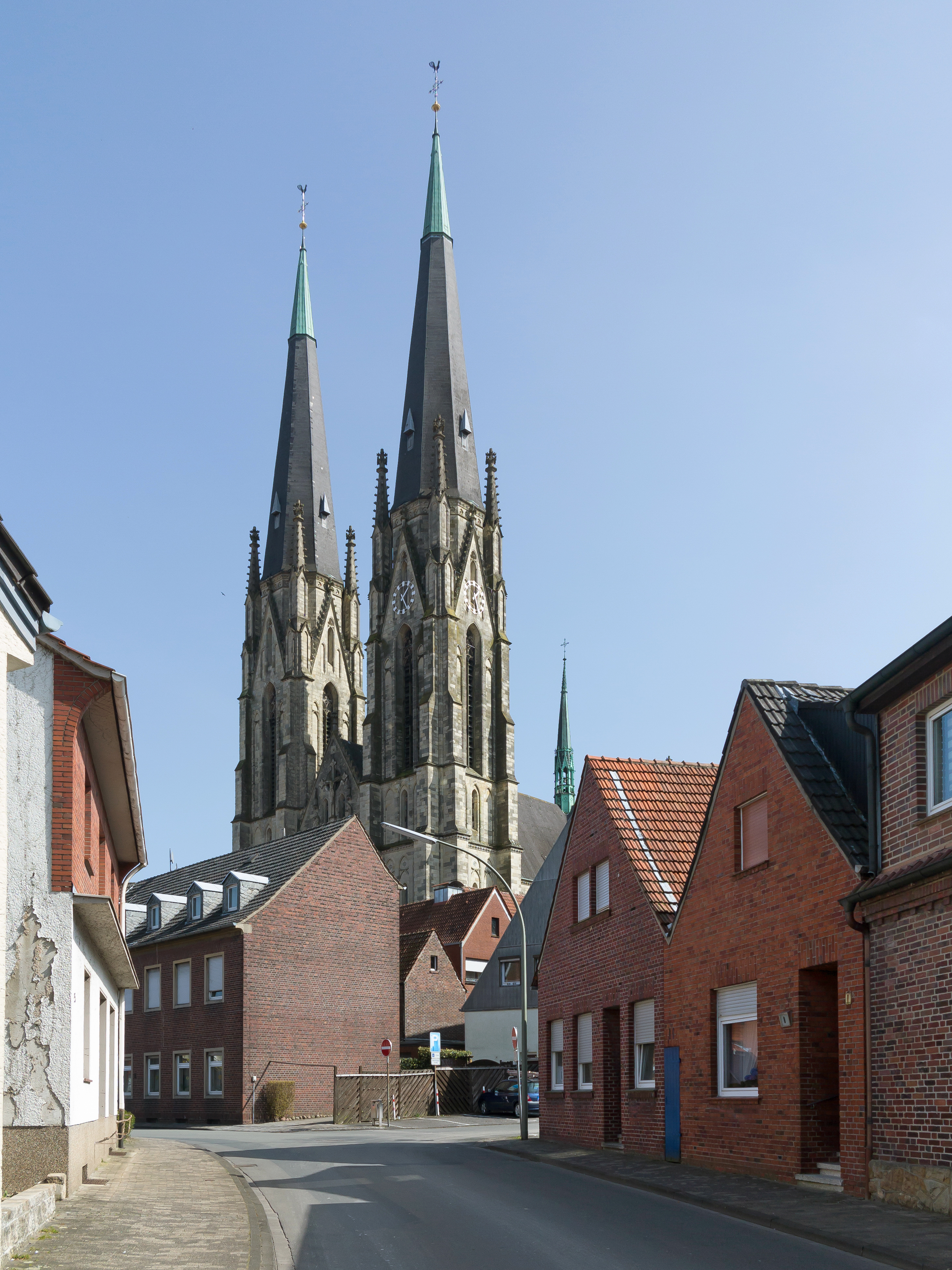 Billerbeck, church: die Propstei- und Wallfahrtskirche Sankt LudgerusThis is a photograph of an architectural monument., no. 11